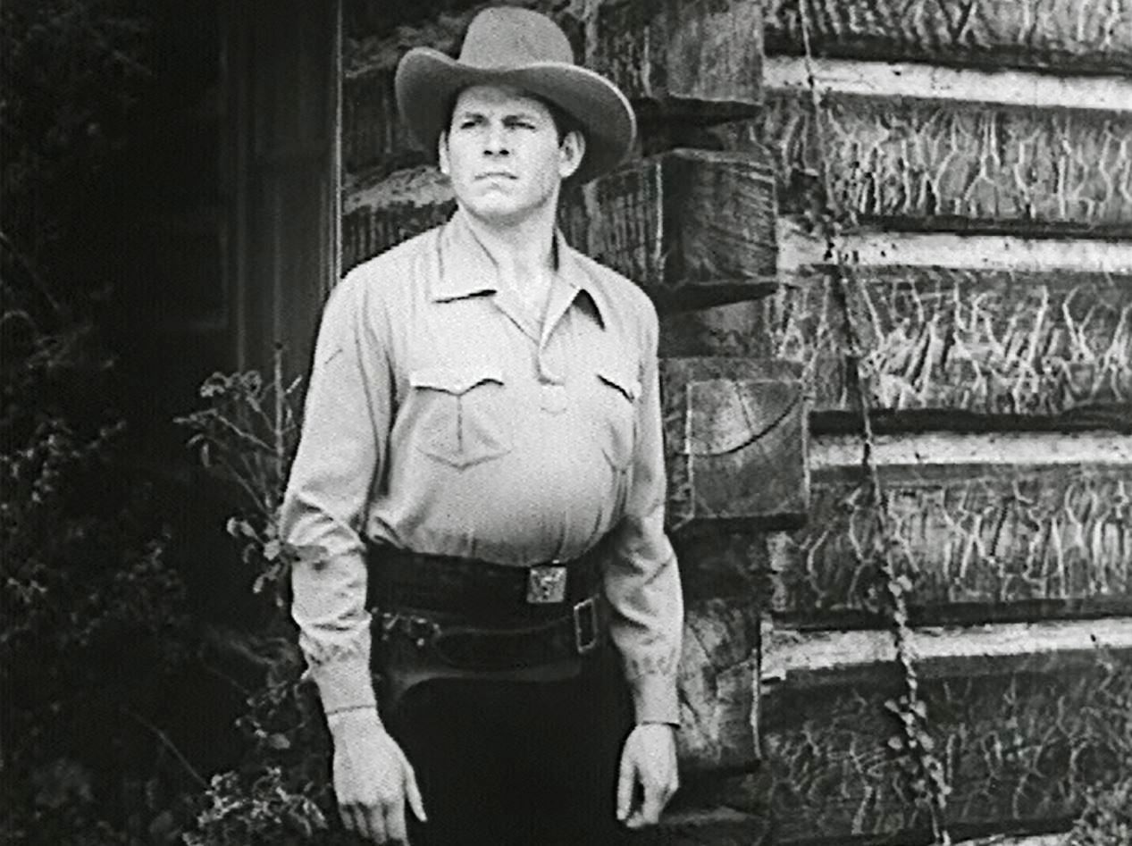 Low resolution screenshot of Fred Kohler, Jr. as Lucky Webster in the American western film Western Mail (1942). The film is in the public domain due to the copyright not being renewed.